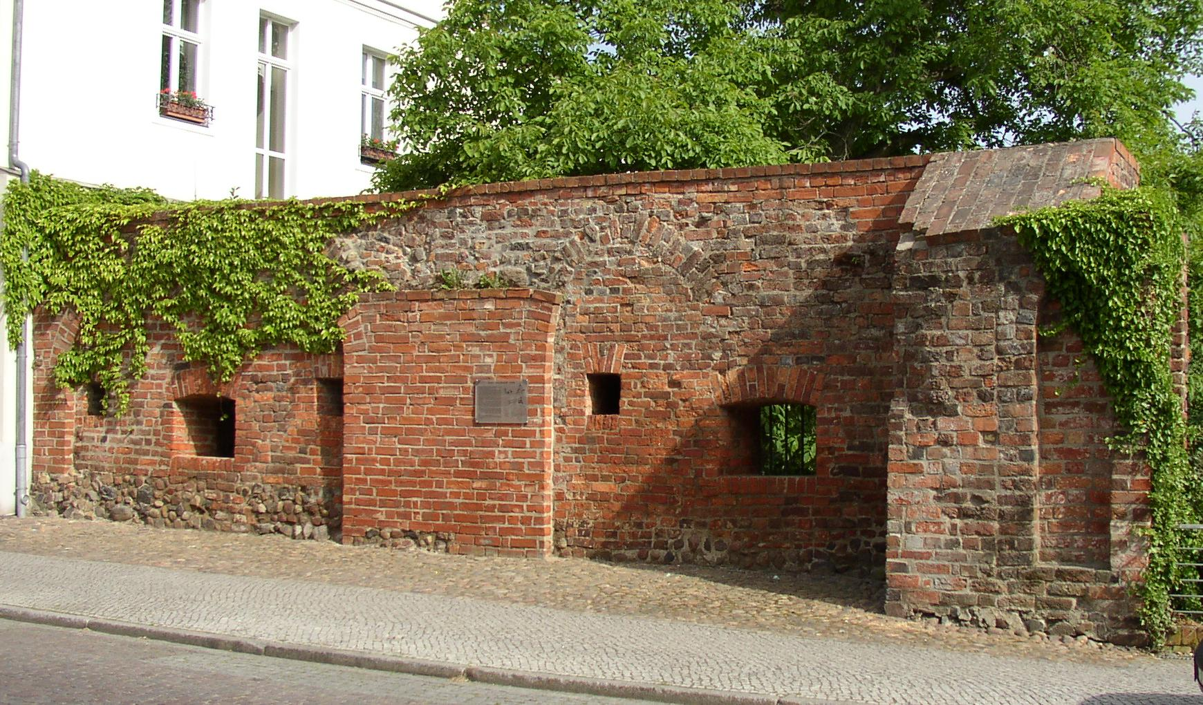 Remains of Sando Gate in Luckau in Brandenburg, Germany